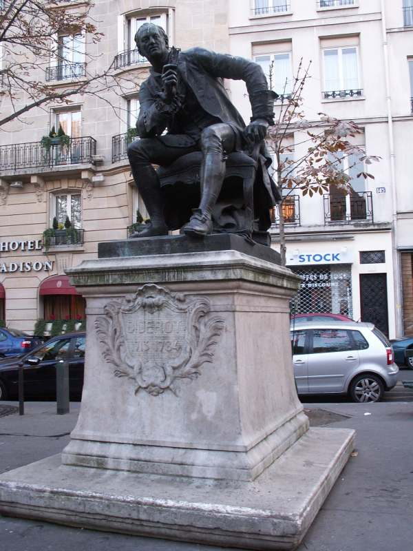 Statue of Denis Diderot by Jean Gautherin. Bronze, 1886. 145 Boulevard Saint-Germain, 6th arrondissement of Paris.